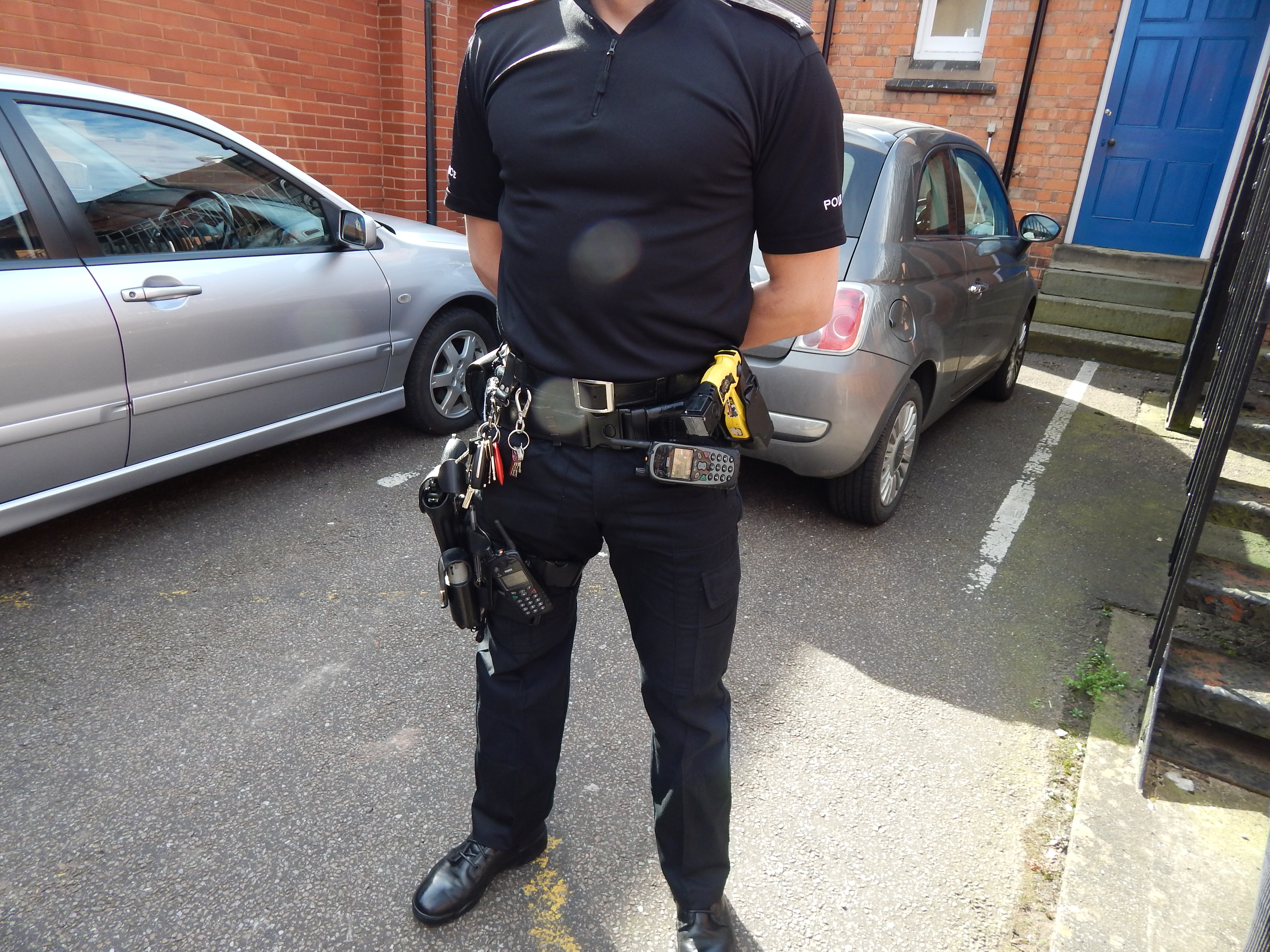 An armed response officer of West Midlands Police, photographed at Sparkhill police station with the kind permission of the officer on the condition that the officer would not be identifiable from the photograph. The officer is equipped with a sidearm and a Taser gun